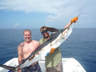 White Marlin picture taken off the San Juan, Puerto Rico North Drop.